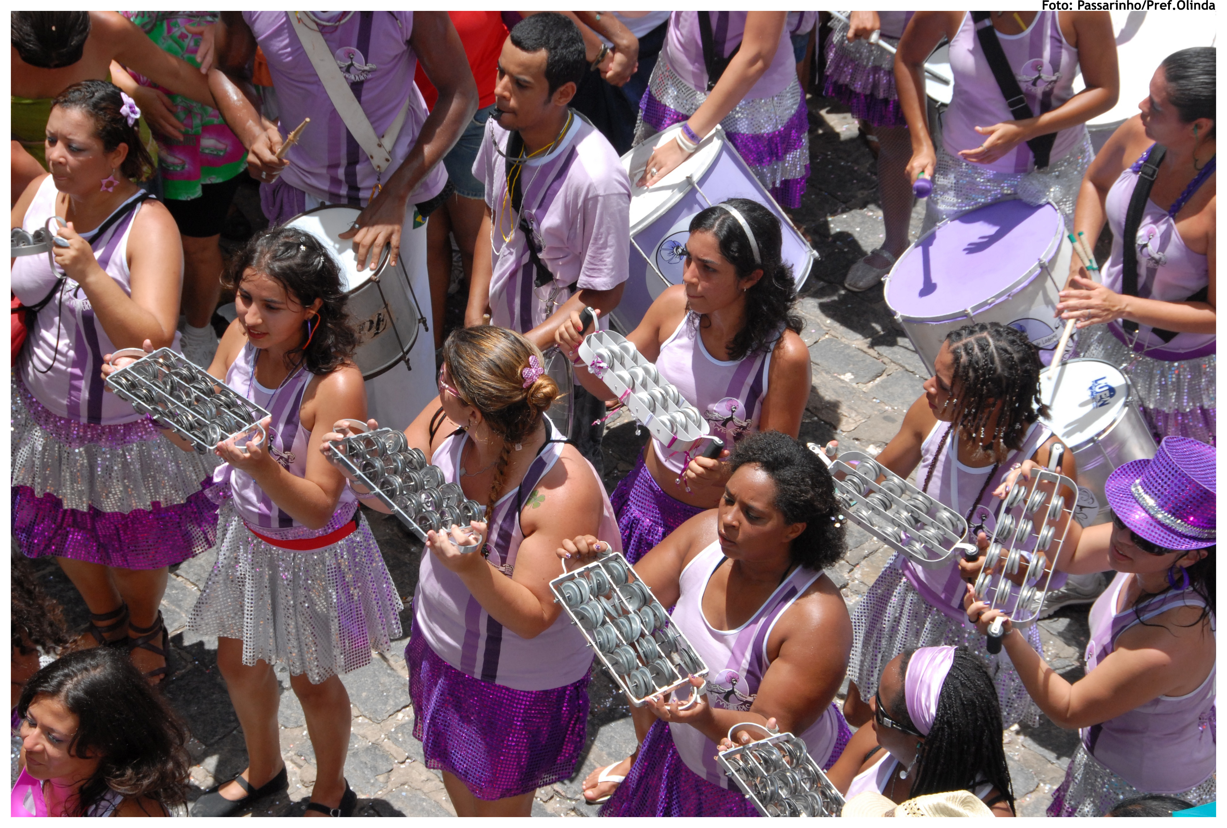 Samba rhythmists of the "Sambadeiras" group (2009) - Olinda, Brazil.